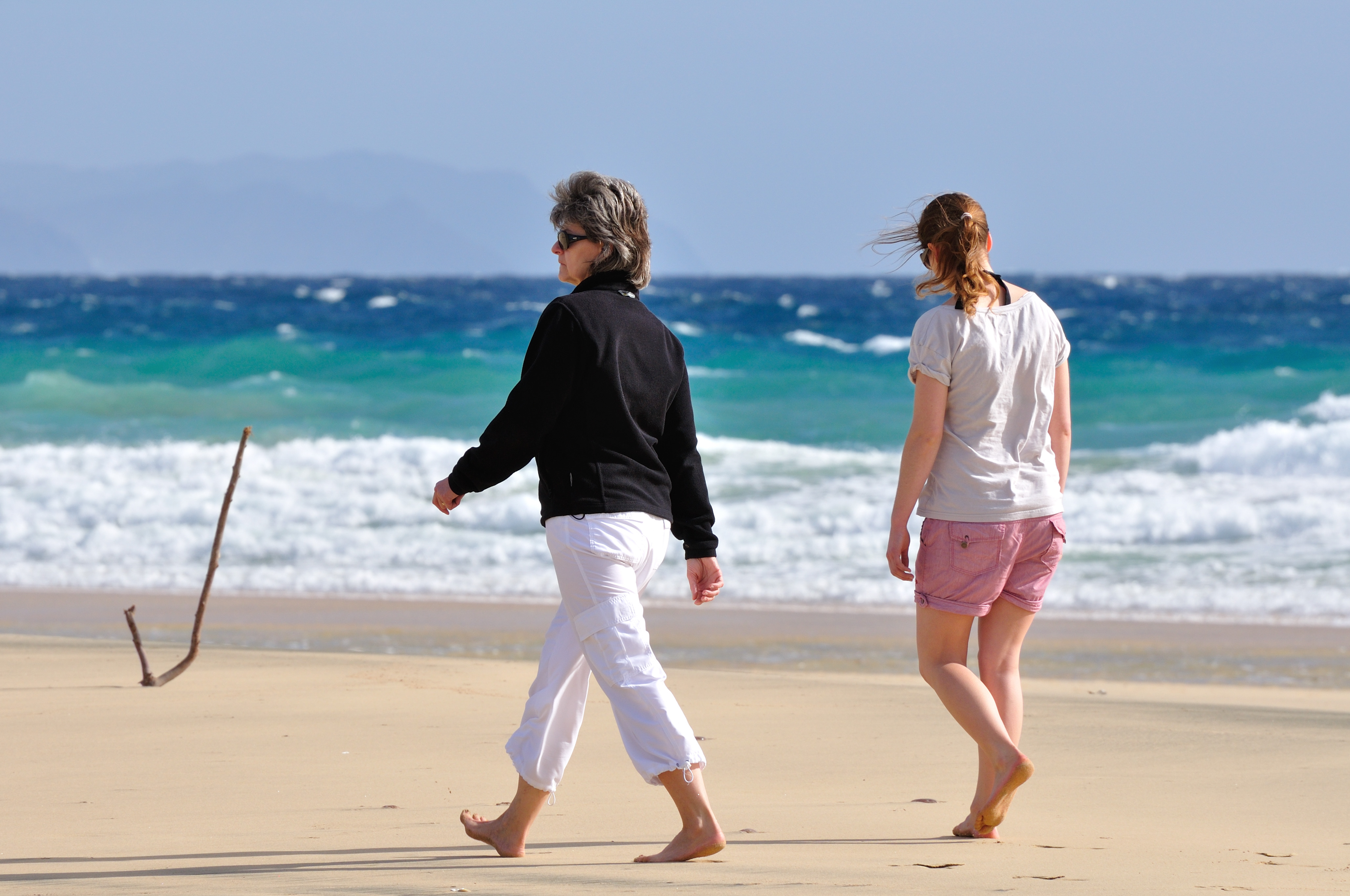 Spain, beaches of Fuerteventura